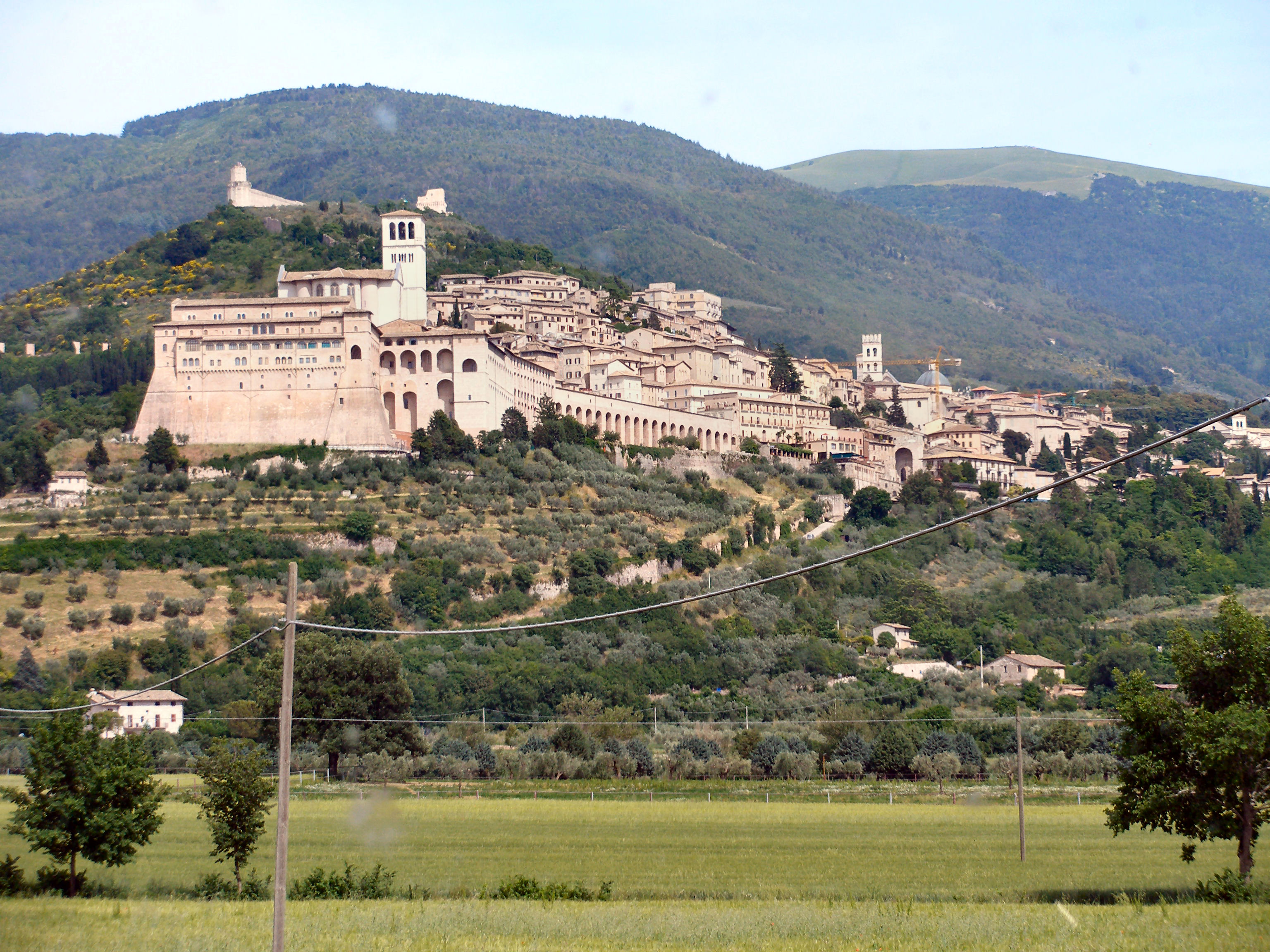 Assisi from Valley